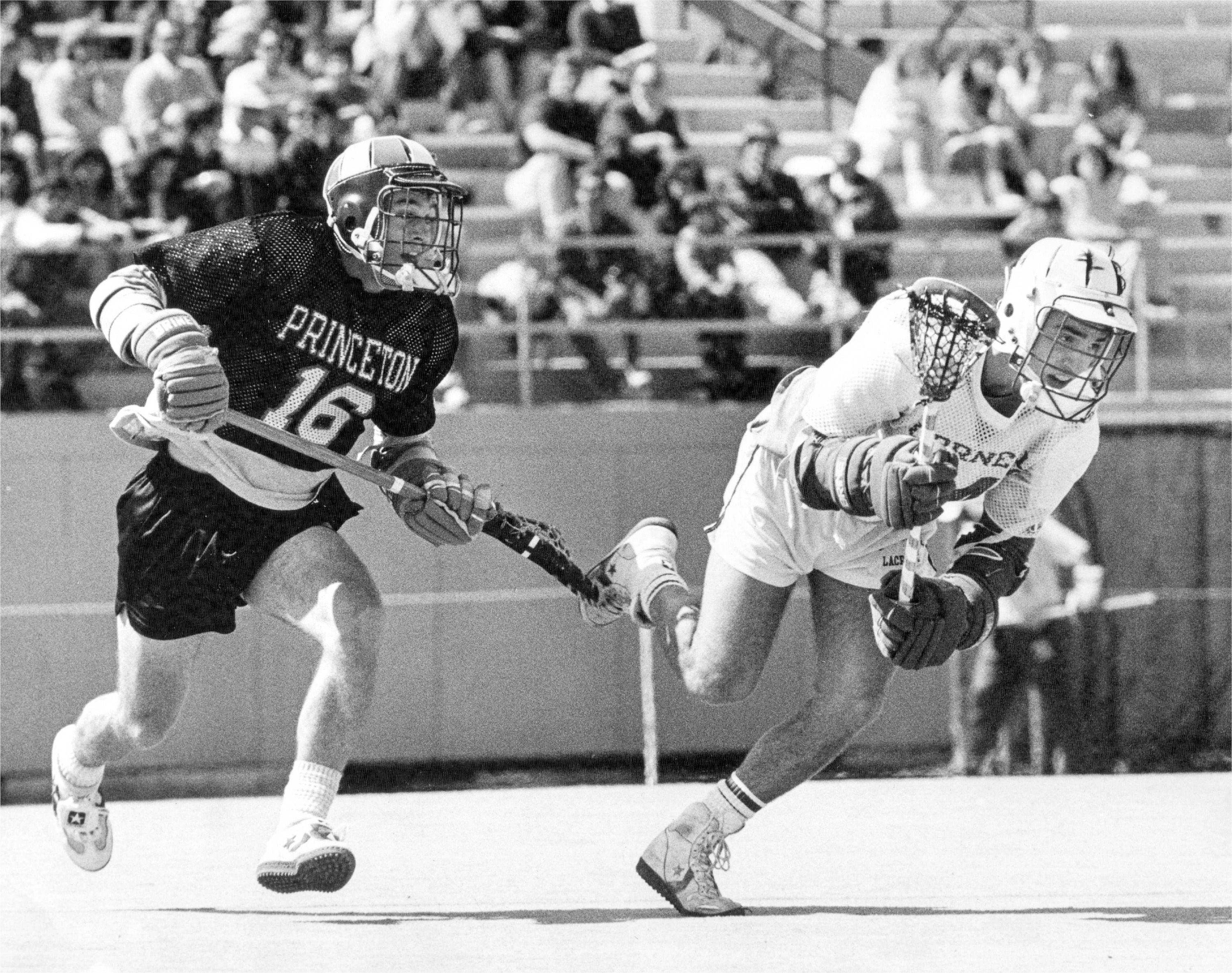 Cornell University vs Princeton Lacrosse, April 25, 1987. Schoellkopf Field. Cornell won 13-2.